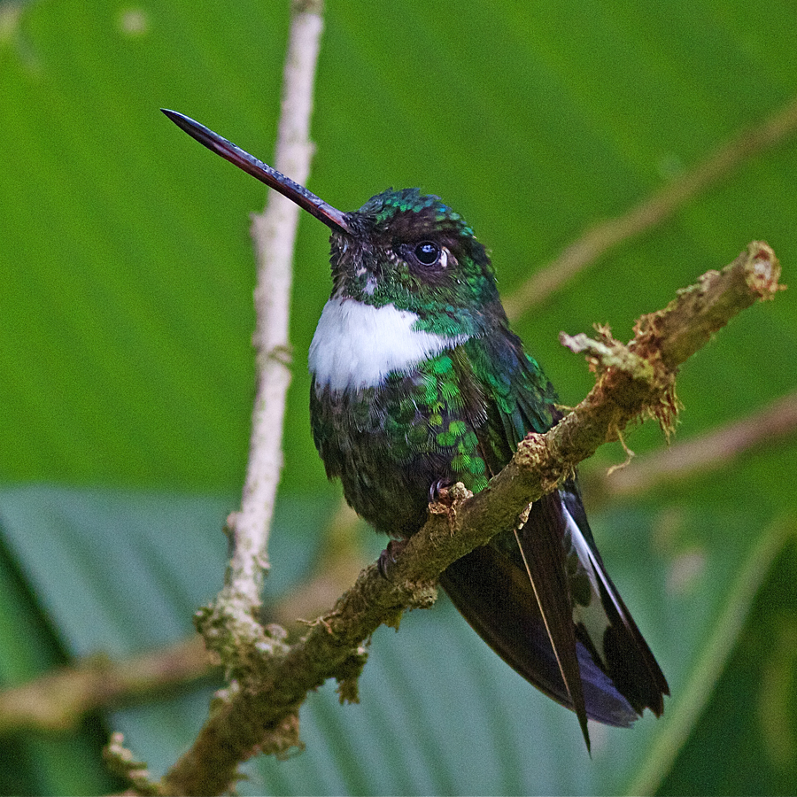 Collared Inca photo taken in the lower Tandayapa Valley (west slope), Ecuador.